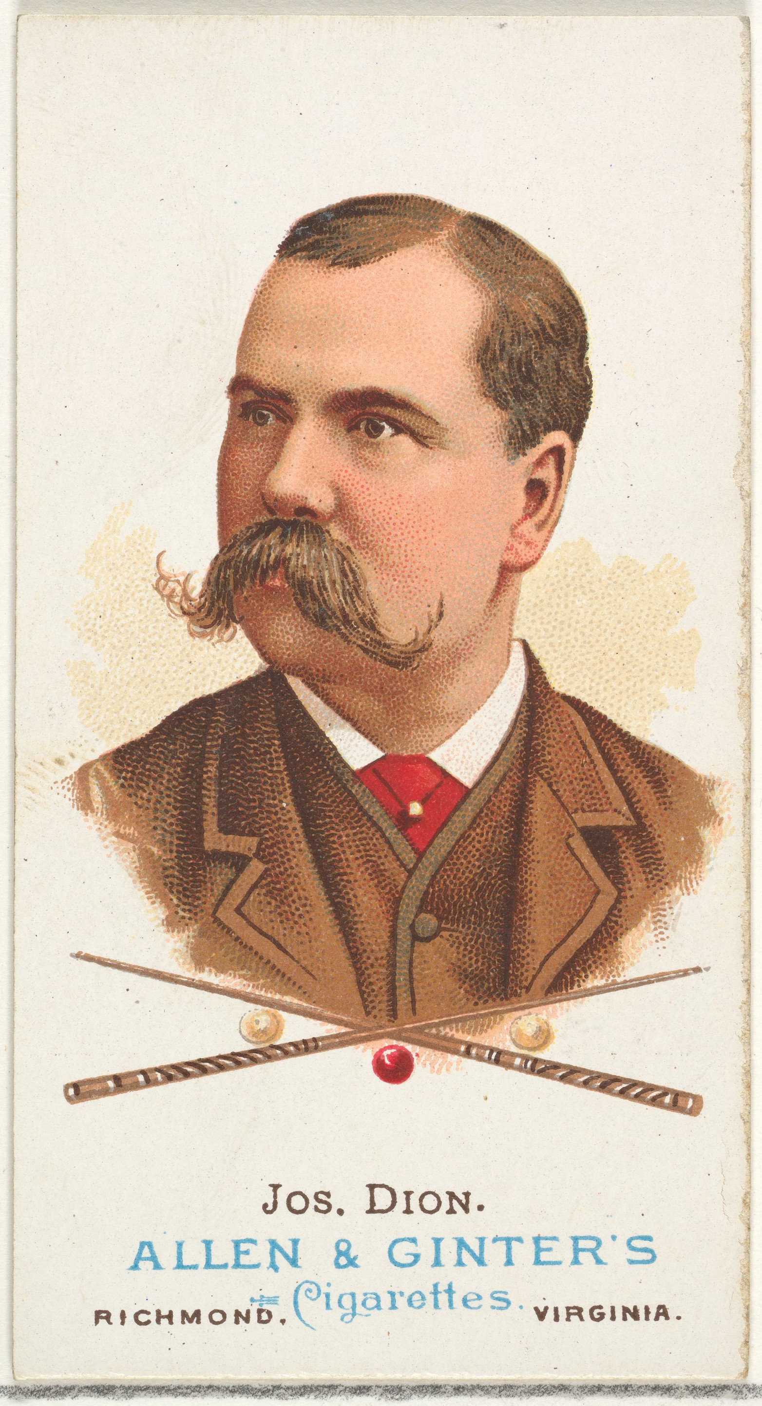 Print; Prints/Ephemera